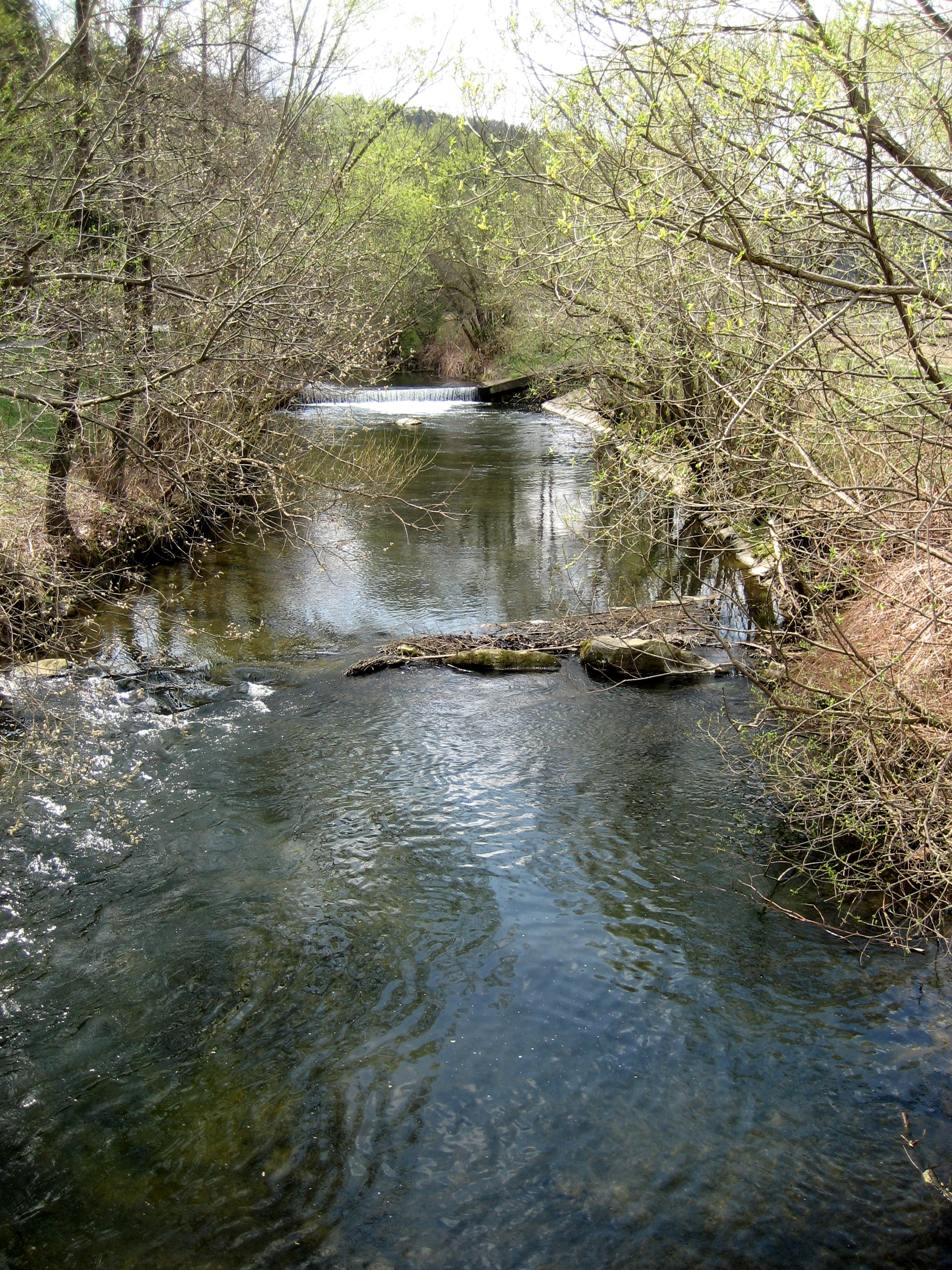 Sulm in Styria,Austria, Europe